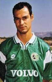 Nir Sevillia